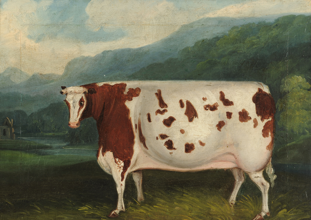 1811 oil painting portrait (artist unknown) of the Craven Heifer